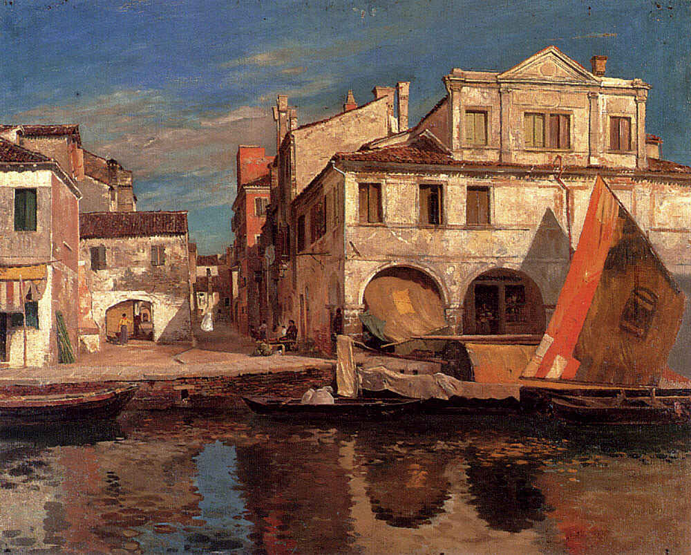 Gustav Bauernfeind: Canal Scene in Chioggia with Bragozzo